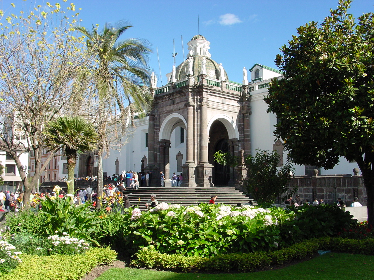 Main doorway to the "Catedral Primada" (Main Cathedral) in Quito. Picture by Byron Calisto.